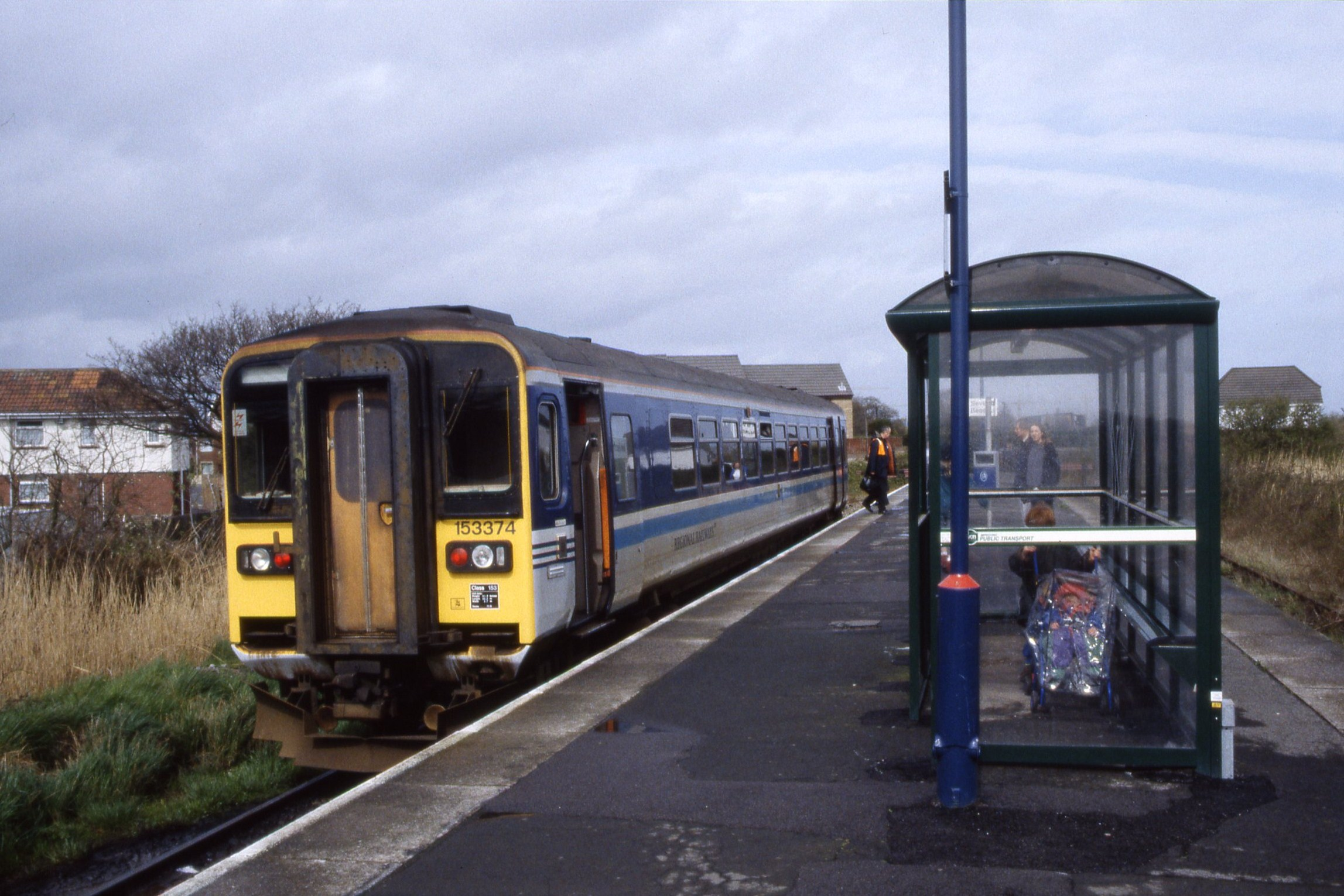 Class 153 BREL-Leyland Super-Sprinter (rebuilt from Class 155) single-car DMU 153374 Regional Railways livery, forming 13.48 service to Bristol Temple Meads.